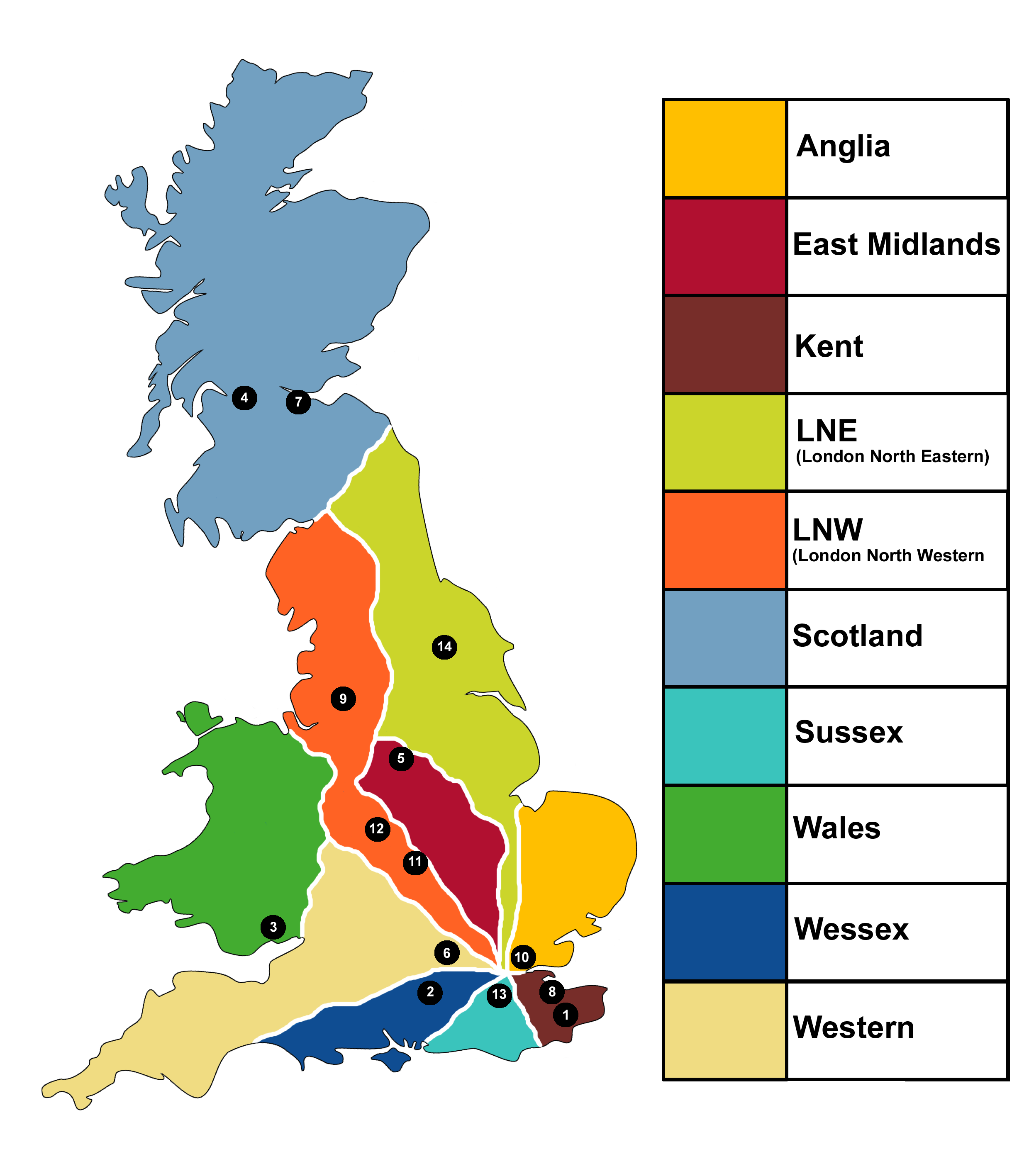 Network Rail Regions map with Rail Operating Centres (ROCs) annotated